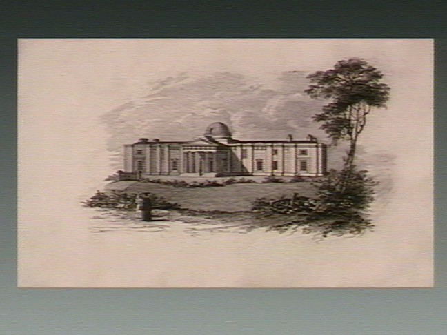 The Observatory, Cambridge. Line engraving by W.J. White after J.C. Mead. Iconographic Collections Keywords: John Clement Mead; William Johnstone White